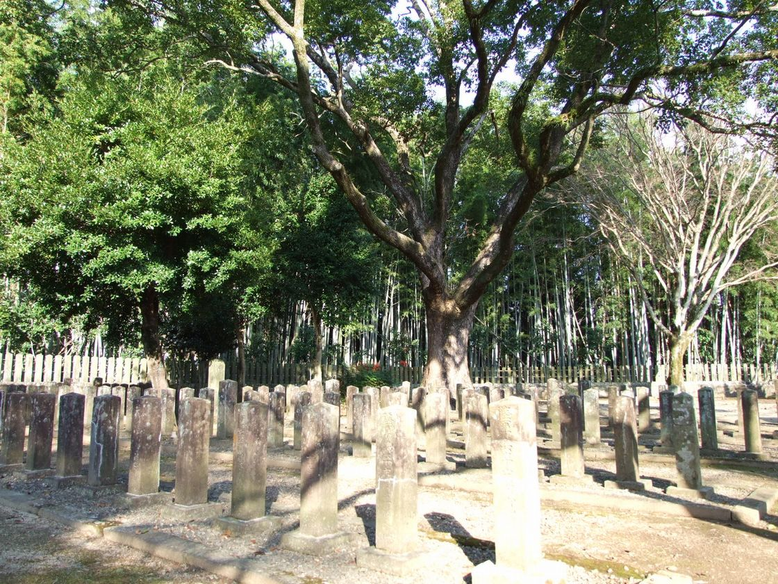 Tabaruzaka Cemetery at Tabaruzaka ancient battlefield, Ueki, Kumamoto